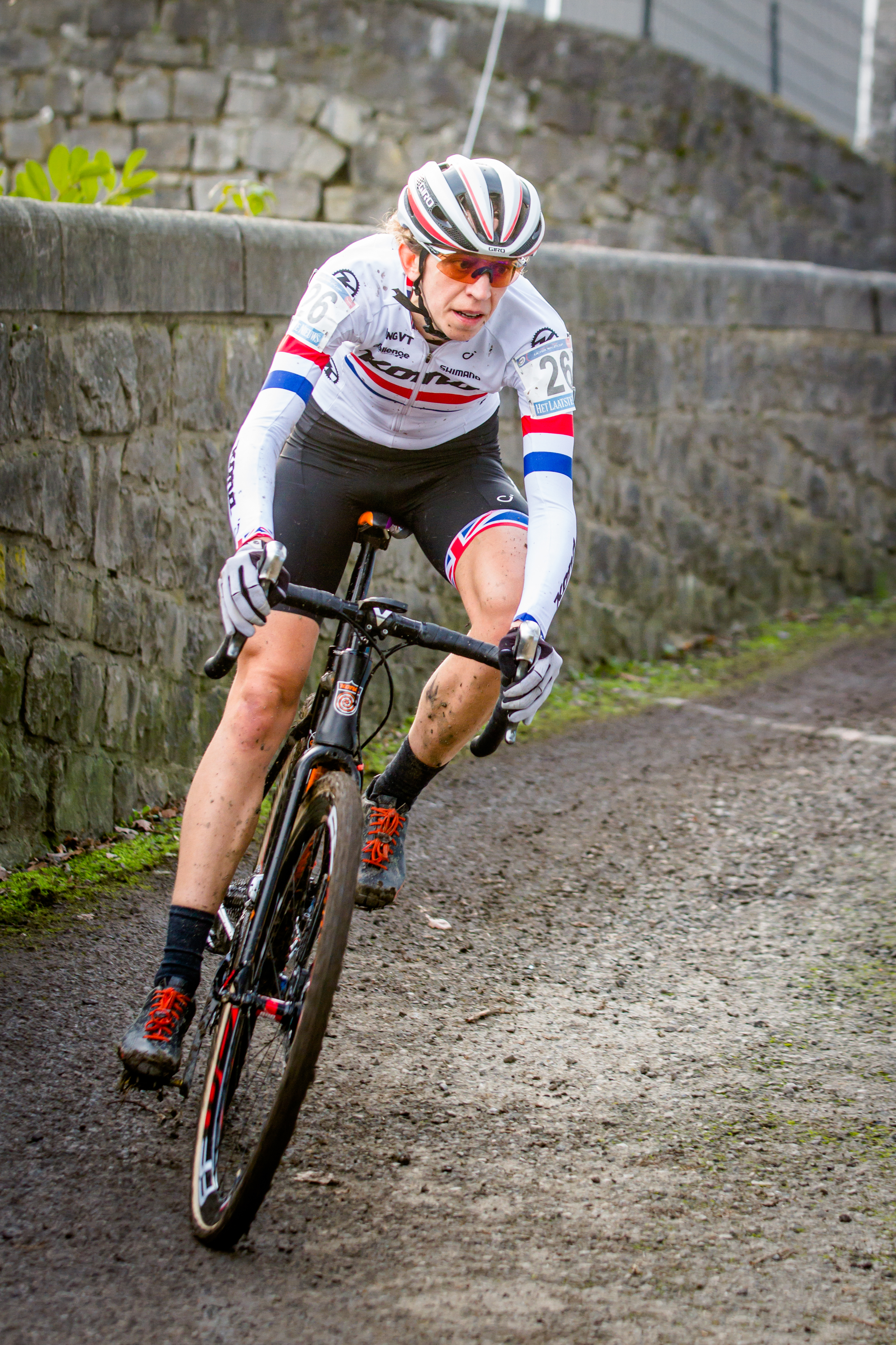 Helen Wyman (GBR), British national champion, of Kona Factory Racing. UCI Cyclocross World Cup, Namur, 2015.